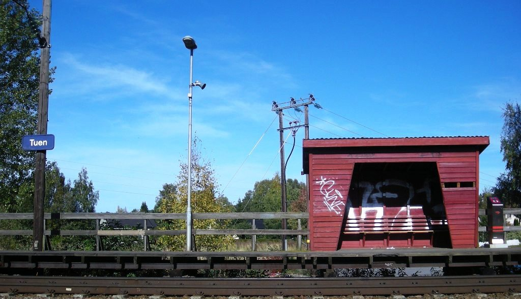 Tuen station on the Kongsvinger line (Akershus, Norway)